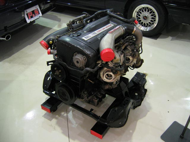 The RB26DETT on display at the Prince Skyline Museum in Nagano, Japan.